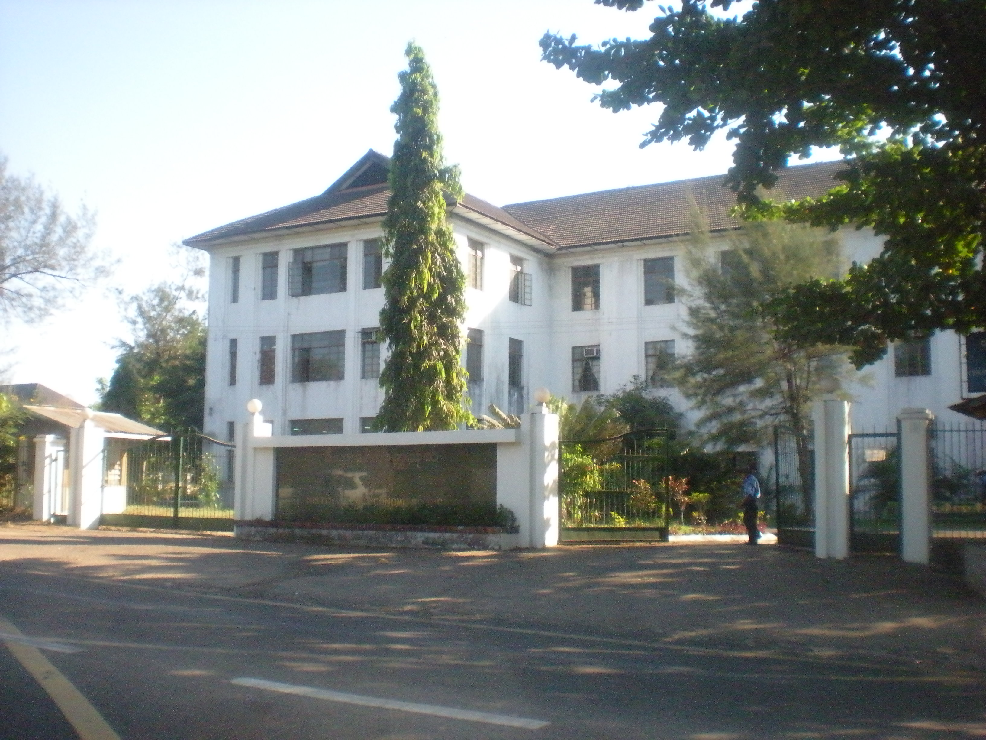 Yangon Institute of Economics ( Hledan Campus ) features an old building conjunction to the University of Yangon